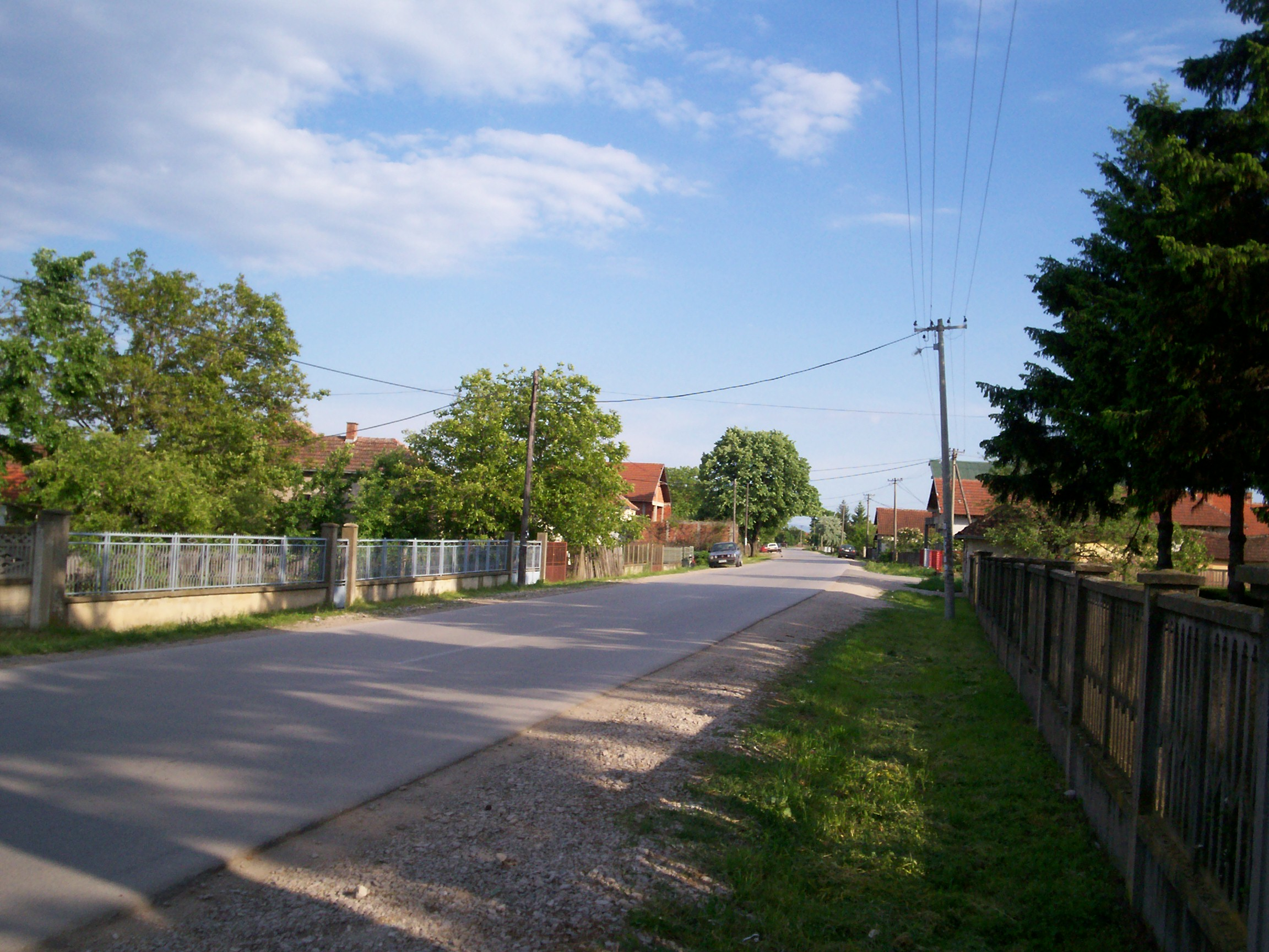 village Nozrina, Serbia